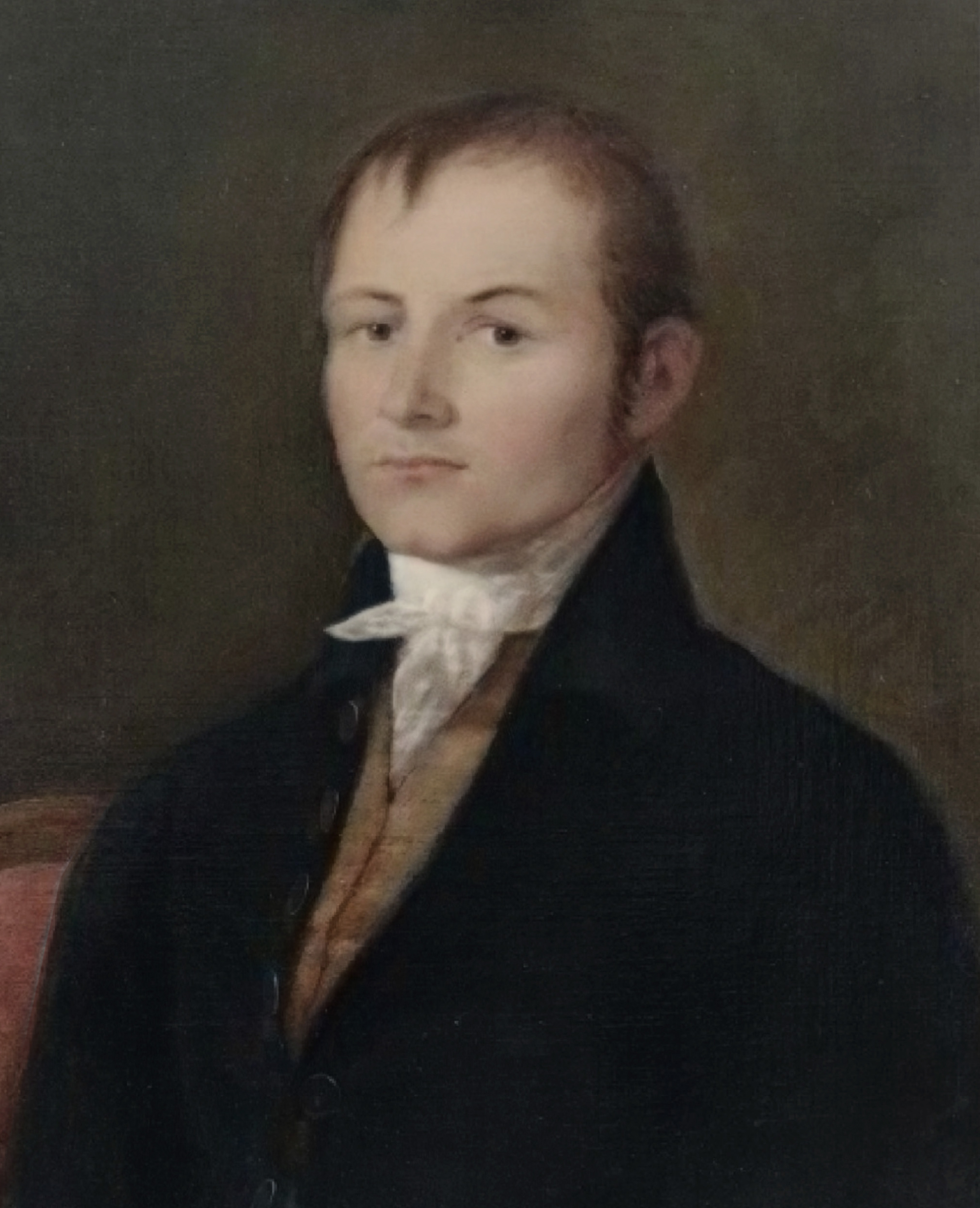 Jonathan Maxcy (1768-1820). Rear of canvas is inscribed with "“Rev. Jon’n Maxcy, Preacher of the First Baptist Society of Providence, R.I., 1792" and "Jon’n Trumbull, 1793"[1]